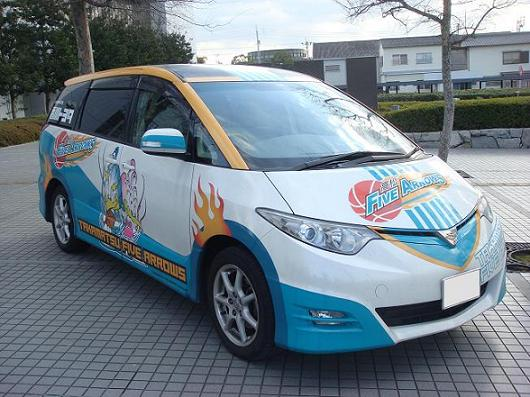 basketball team TAKAMATSU FIVEARROWS car